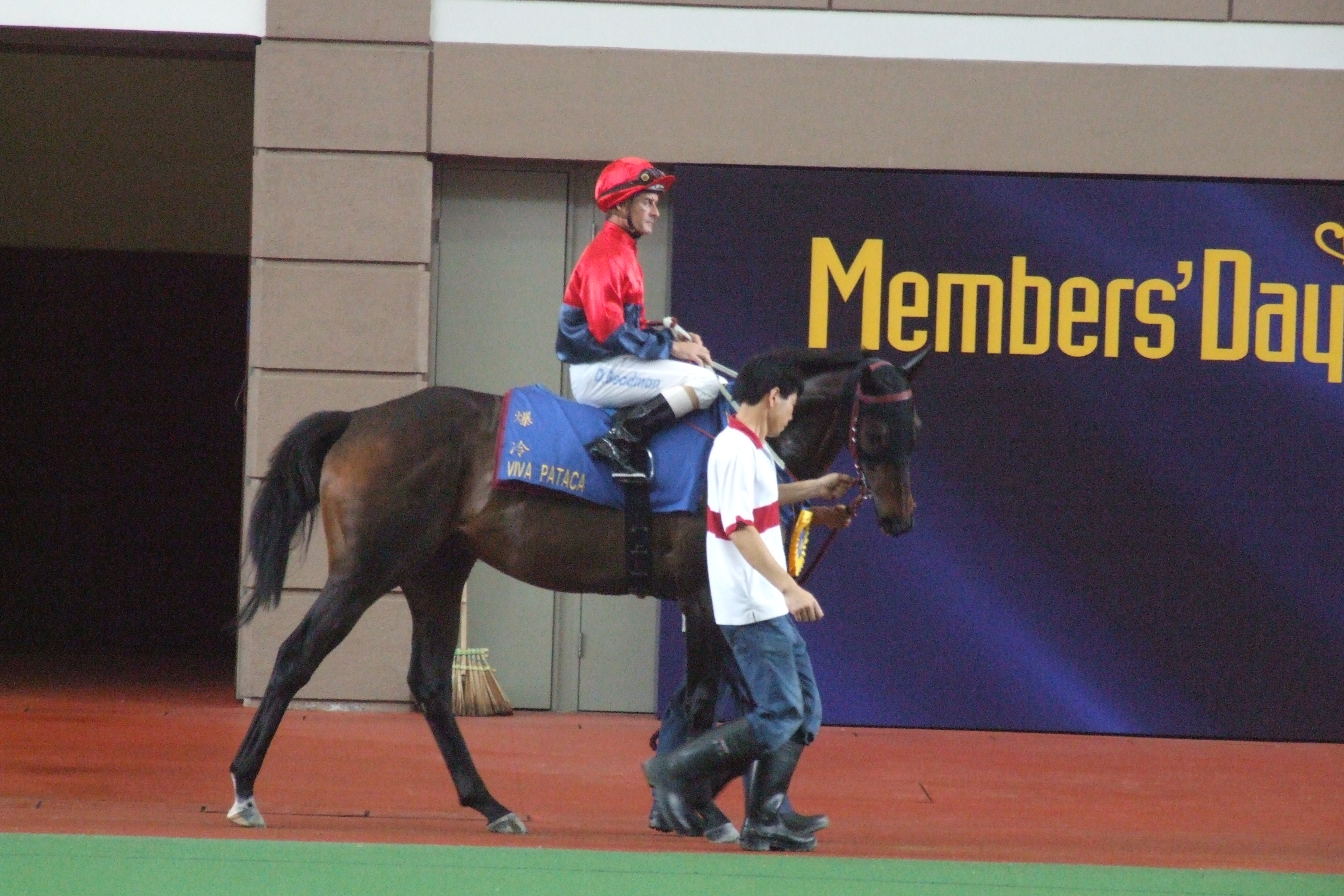 Viva Pataca 中文（香港）: 爆冷